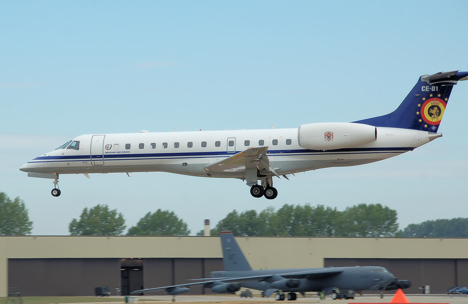 Belgium Air Force ERJ 135LR transport aircraft (CE-01) lands at the 2010 Royal International Air Tattoo, Fairford, Gloucestershire, England.